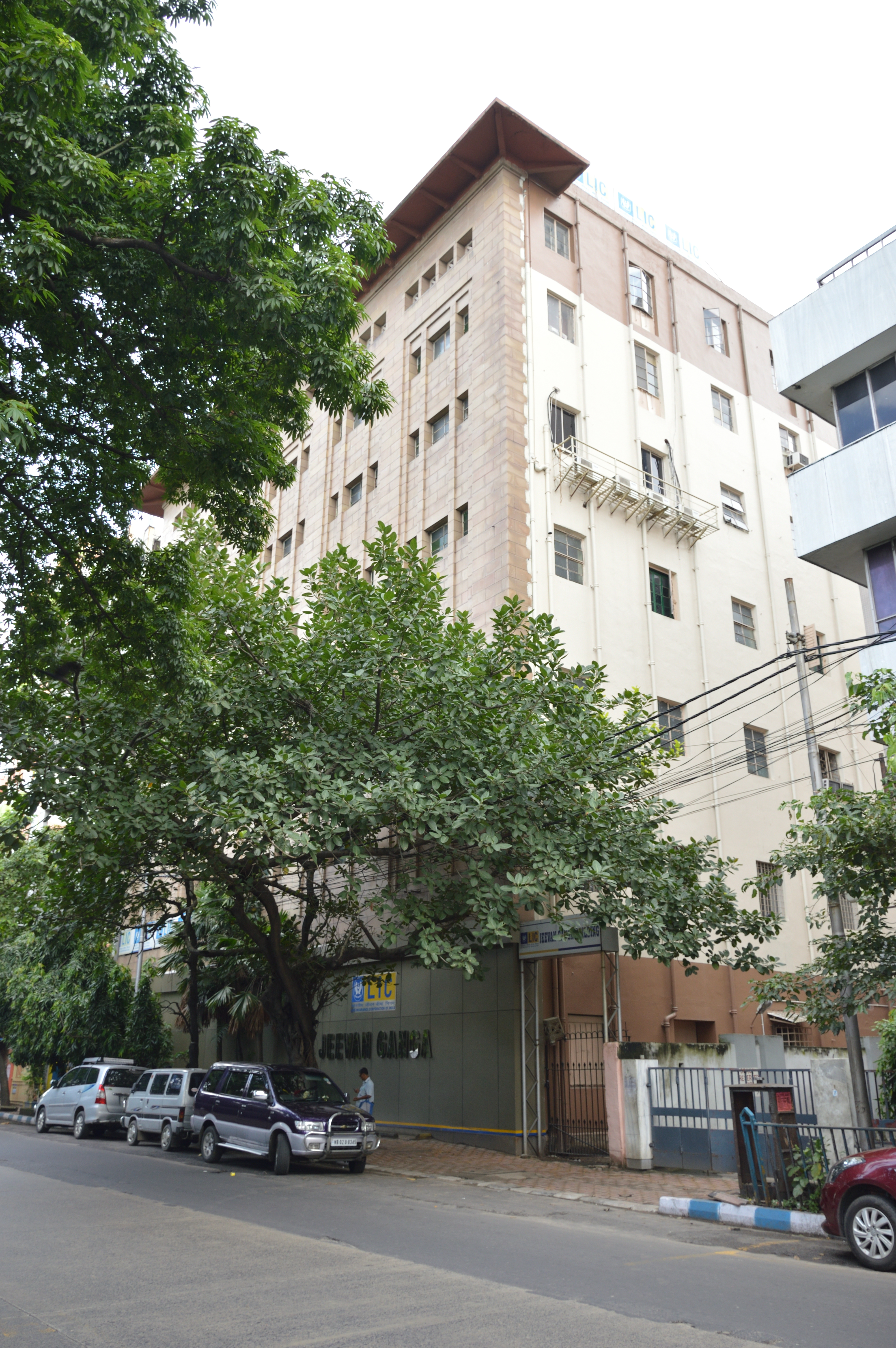 This photograph was taken from the Strand Road, Kolkata.